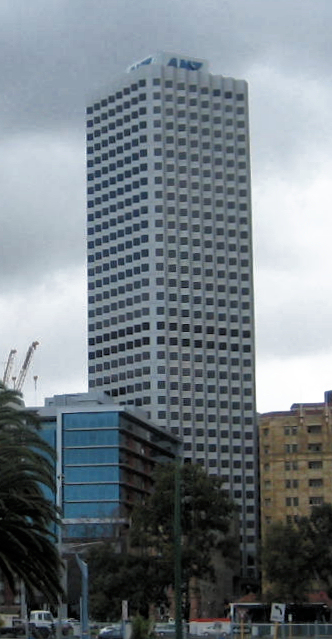 Allendale Square in Perth, Western Australia, viewed from Barrack Square.